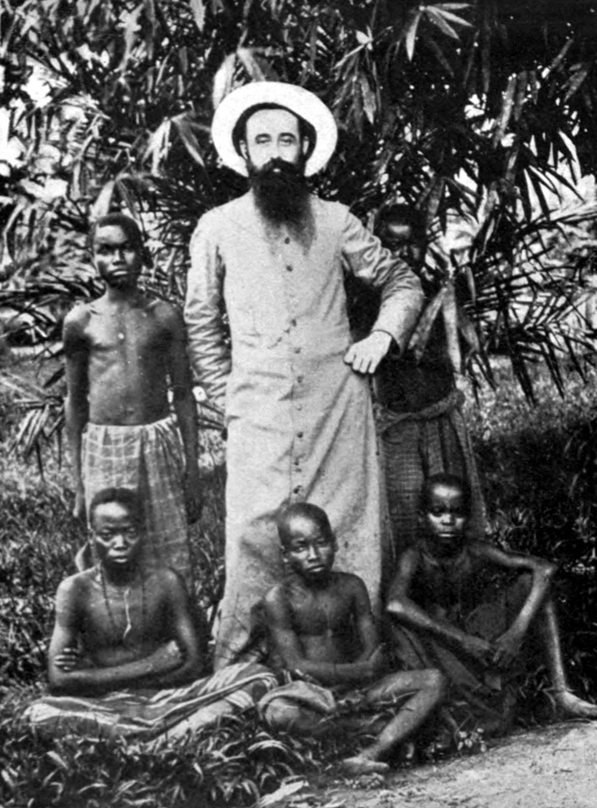 Father Kisouru of the New Antwerp Mission (Bangala) - p. 482